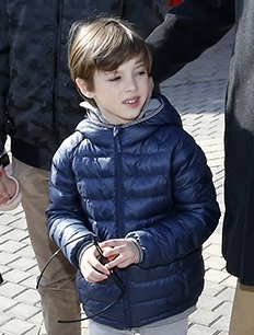 Prince Henrik at the opening of the area Ninjago World in the amusement park Legoland Billund Resort in Denmark.